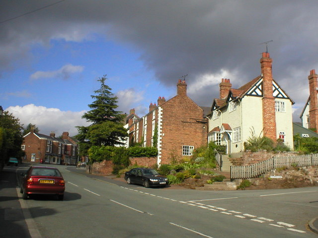 Farndon Village, Cheshire. This village lies on the English/Welsh border.